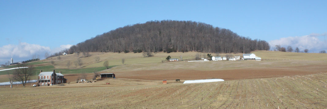 View of Mole Hill, Rockingham County, facing northwest from Swope Road (VA Rt. 736). Feb. 2009.